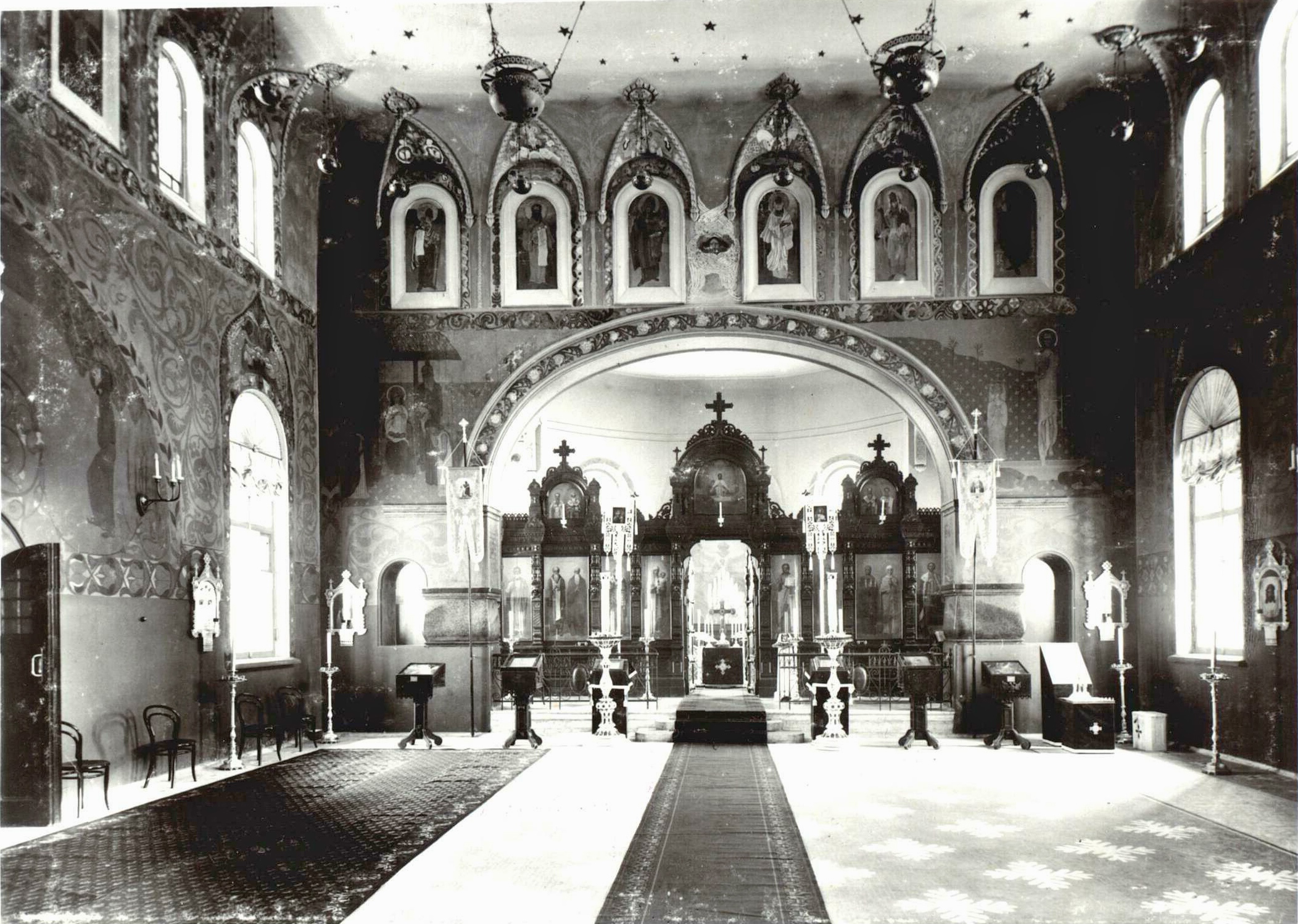 Tsarskoye Selo (Russia)